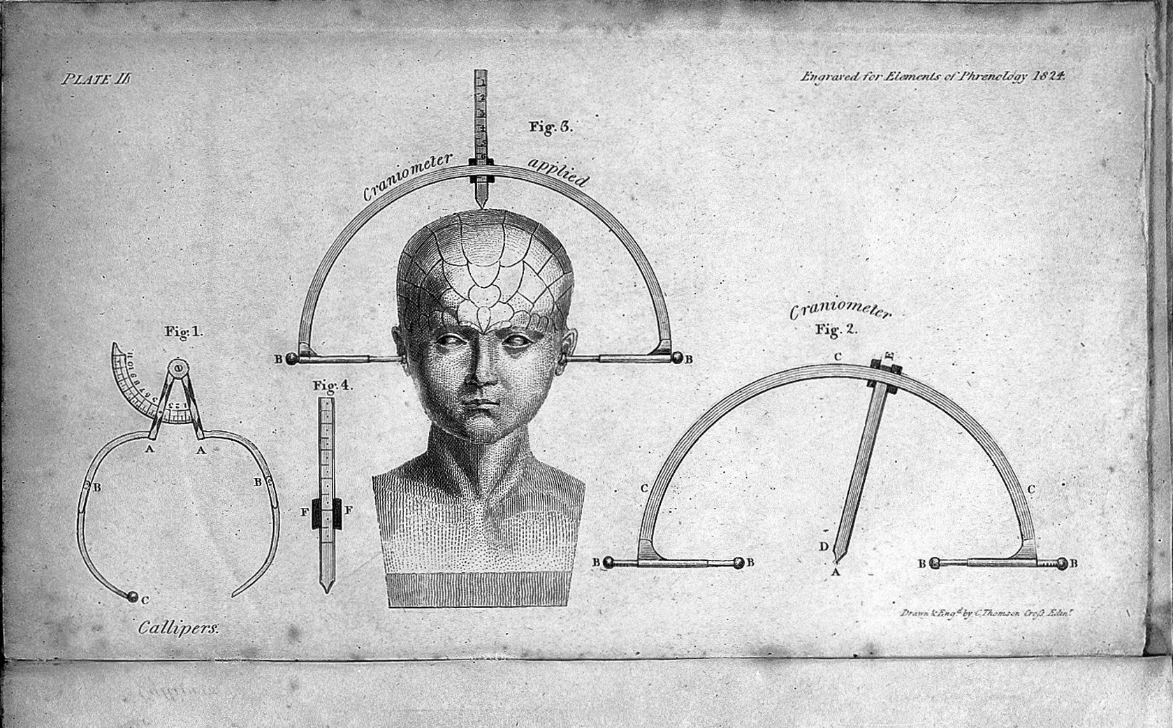 'The new craniometer'. Rare Books Keywords: Phrenology